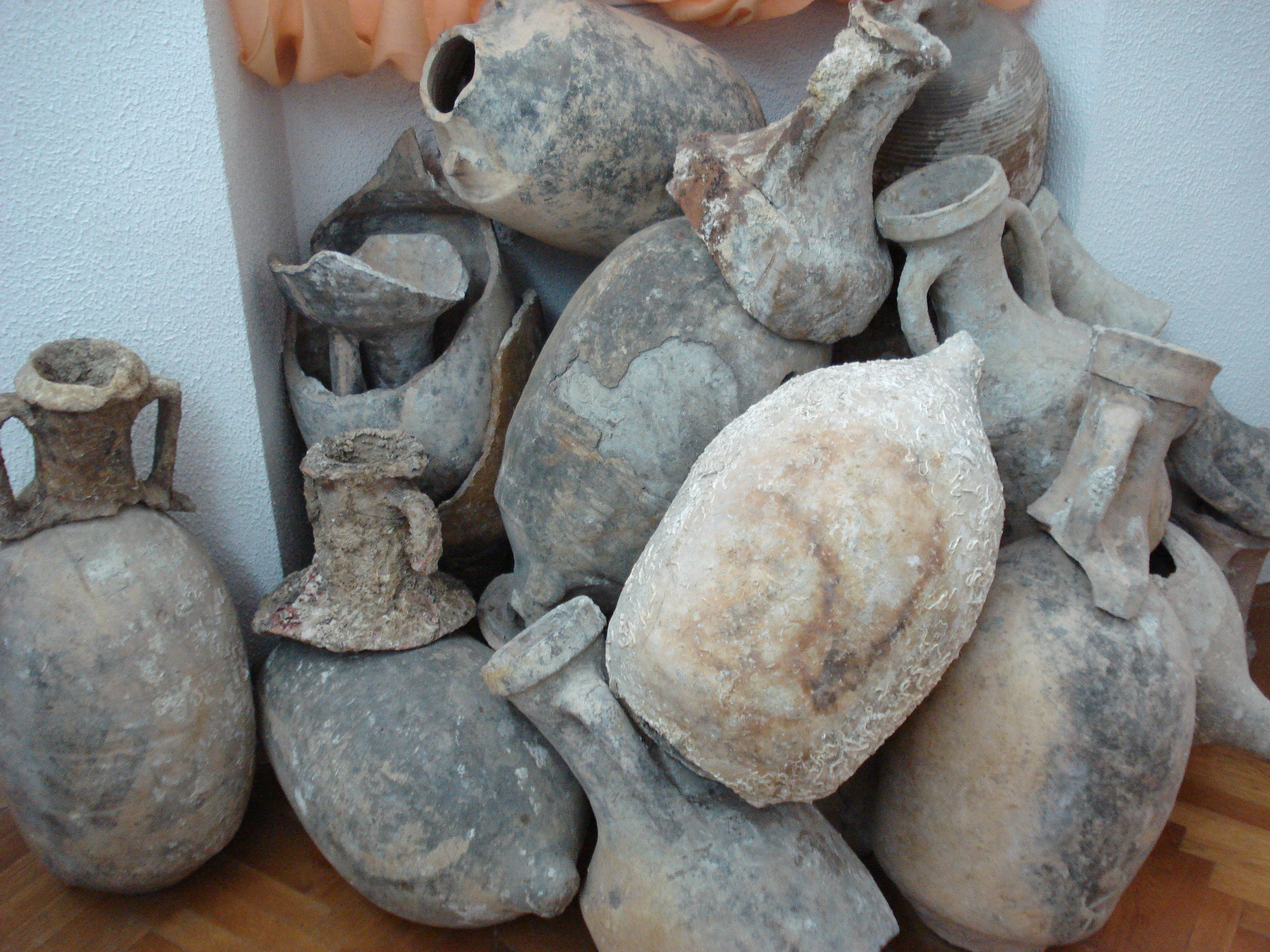 Makarska Town Museum, Croatia - various amphoras